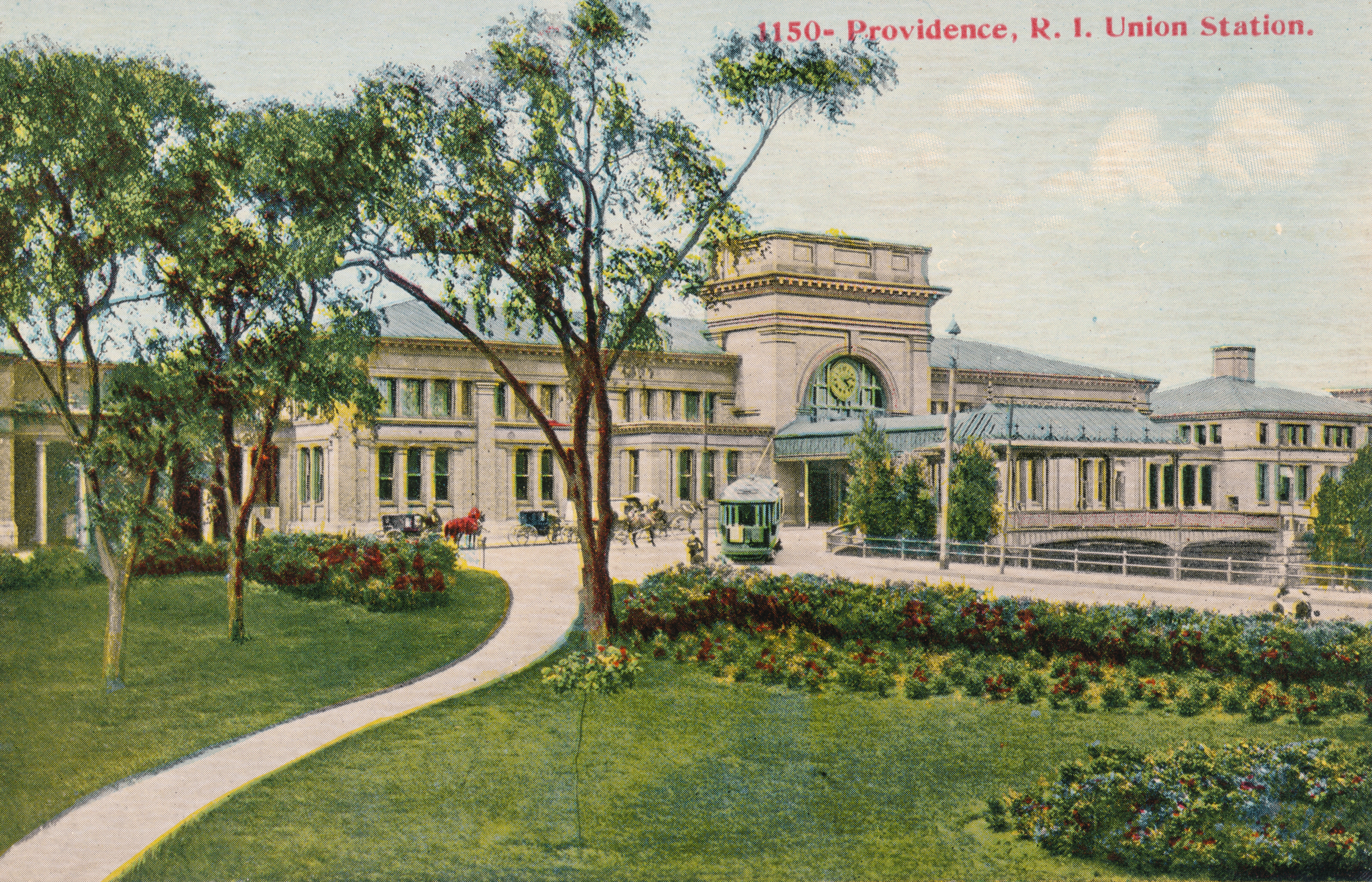 Early postcard of the former Union Station in Providence, Rhode Island.